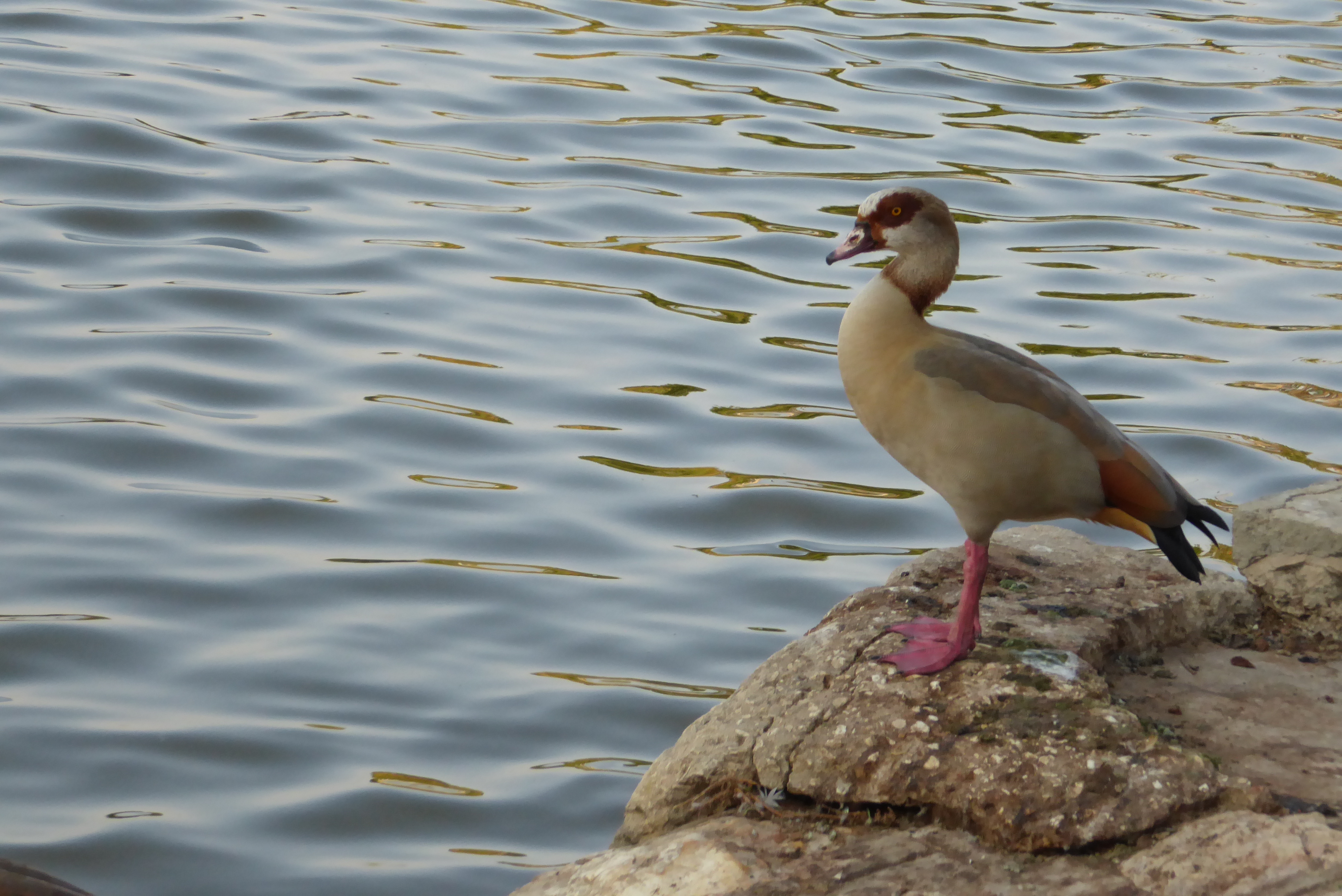 Birds of Ramat Gan, National Park, Ramat Gan